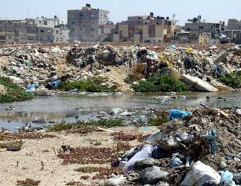 waste piles up at rafah municipality waste dump